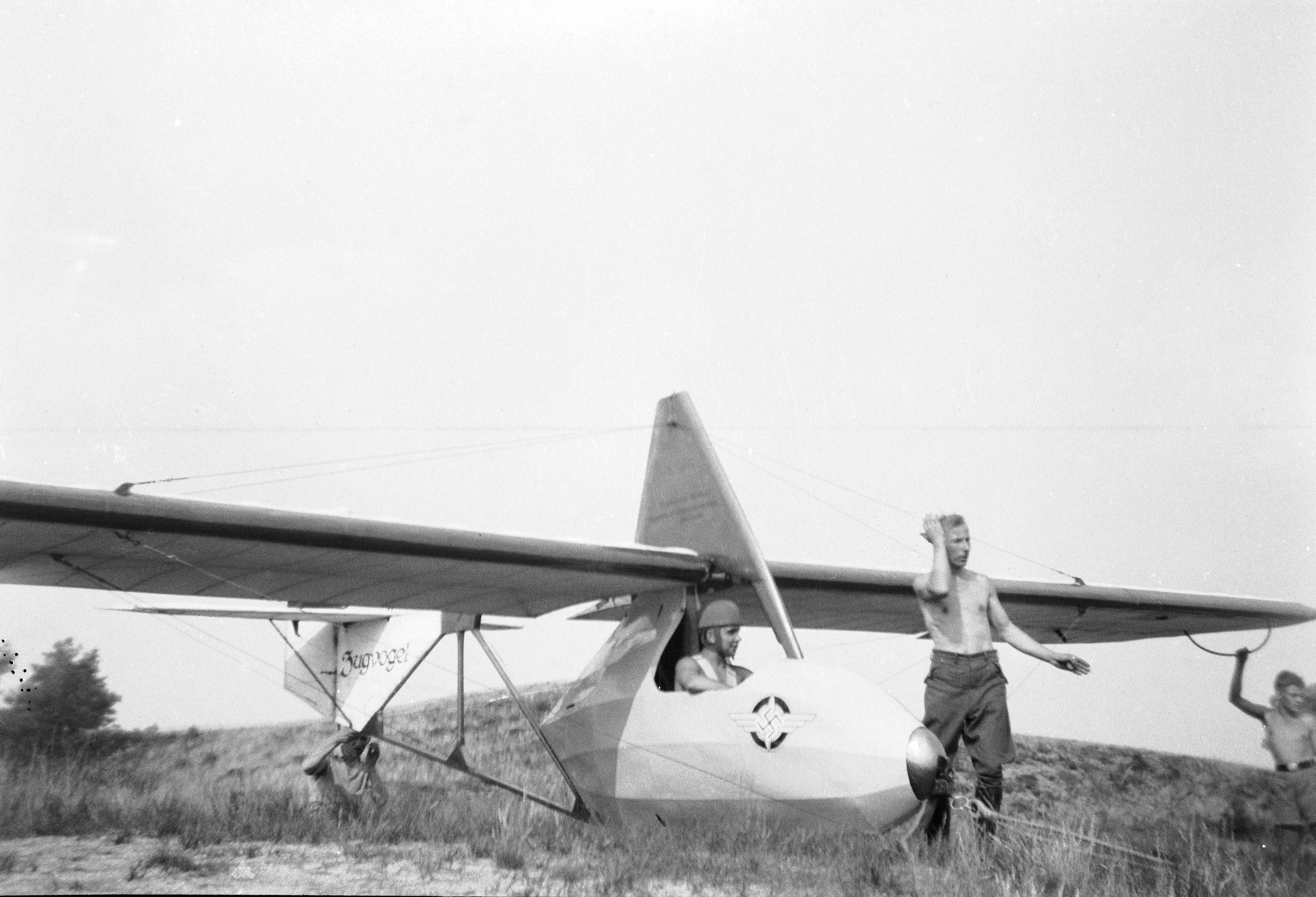 Grunau 9 with streamlined fairings